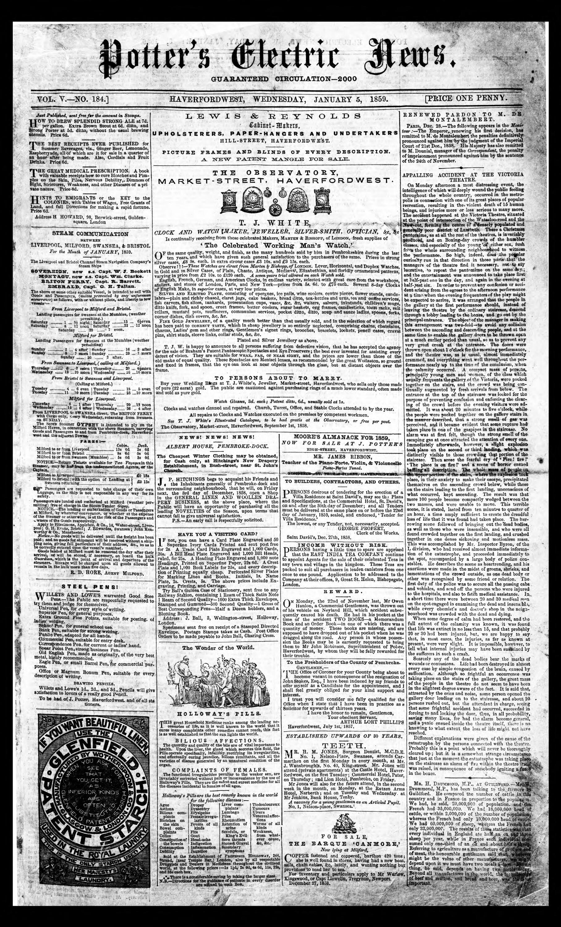 Front page of the earliest surviving copy of the Welsh newspaper Potter's Electric News